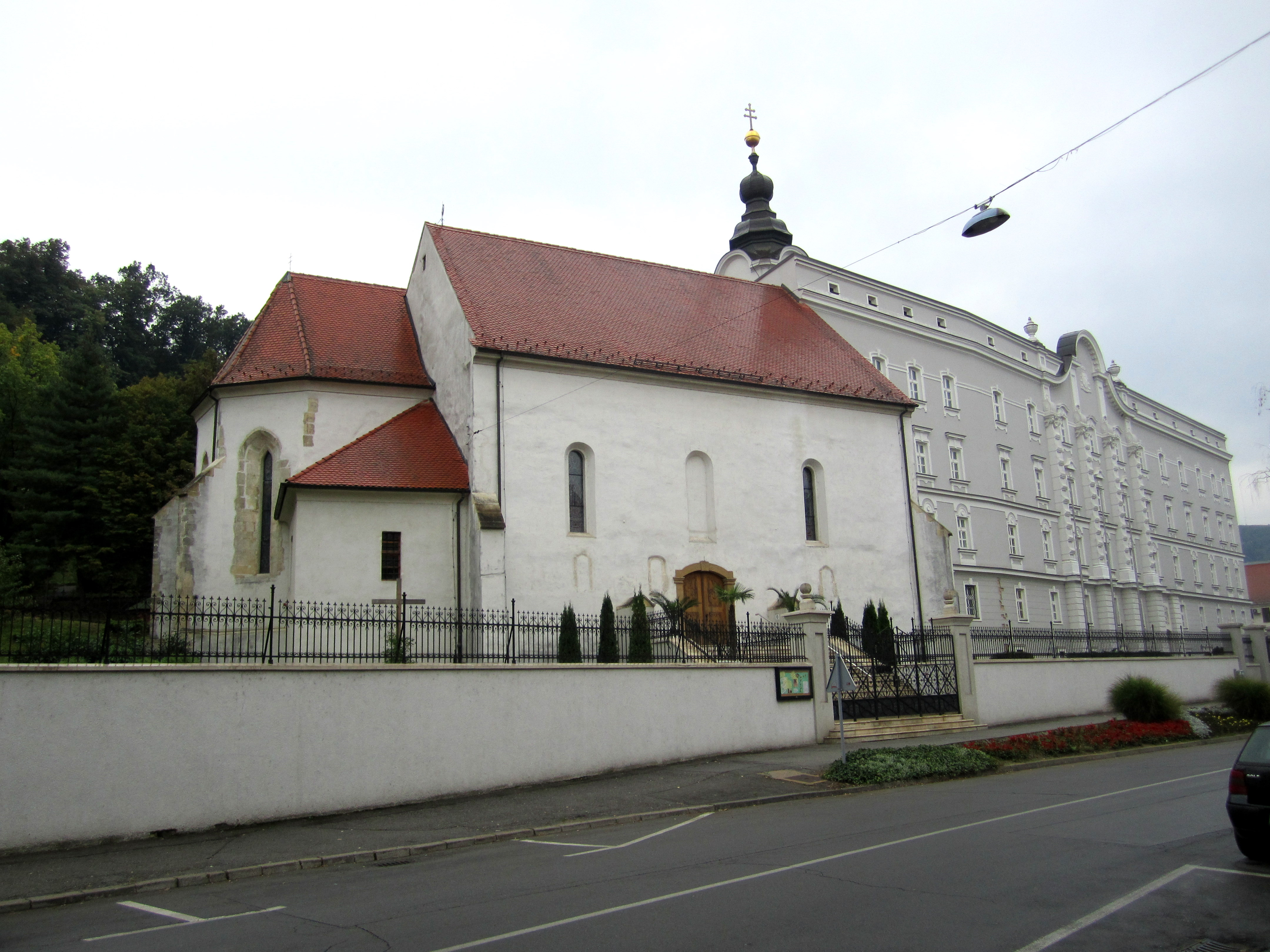 Gothic St. Lawrence church and Bishop's palace in Pozega, Croatia